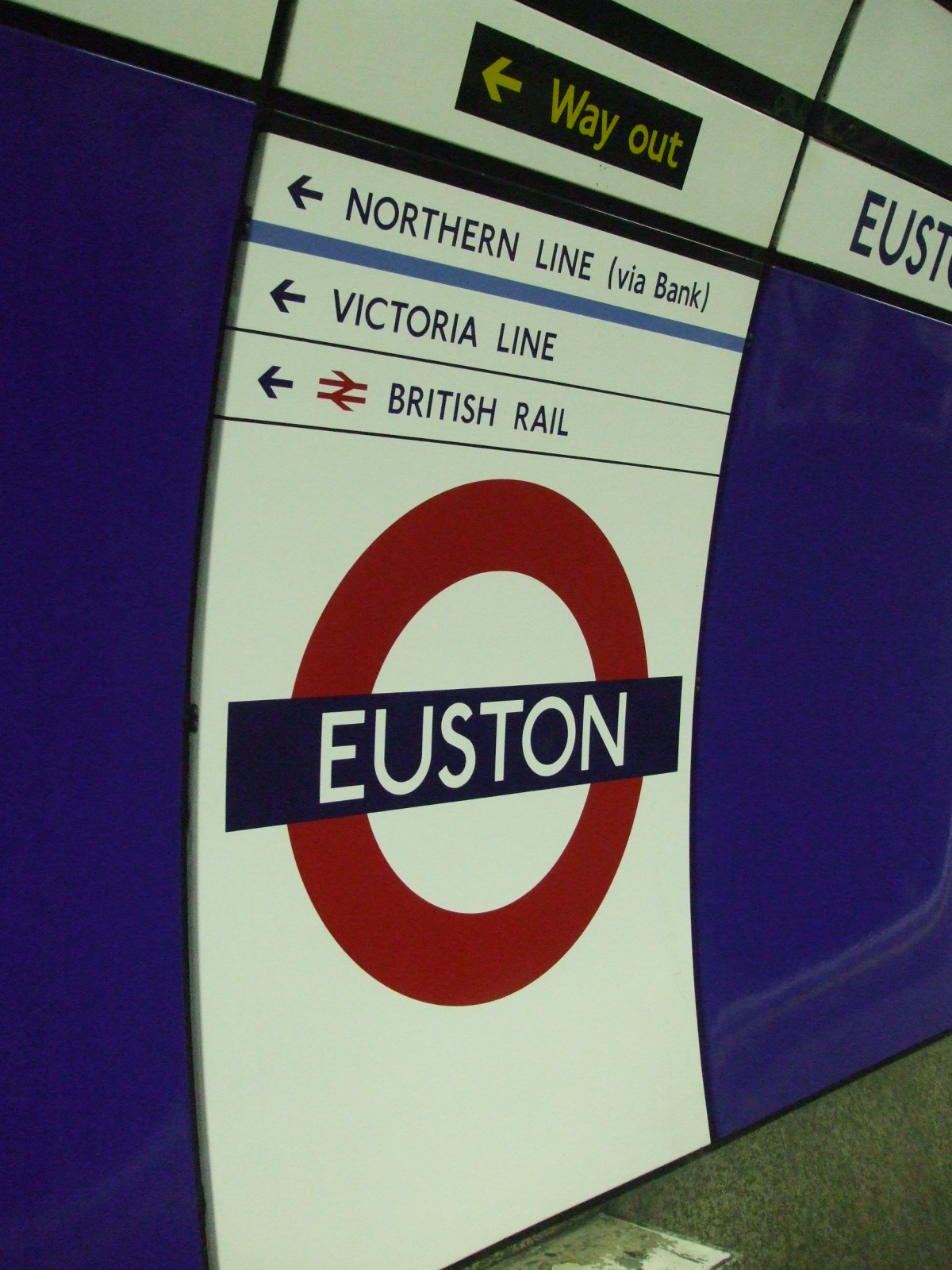 Roundel on Euston tube station Northern Line Charing Cross branch northbound platform